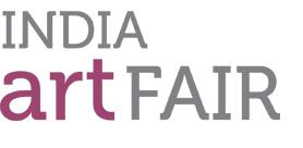 Logo of India Art Fair, as of 2013-14